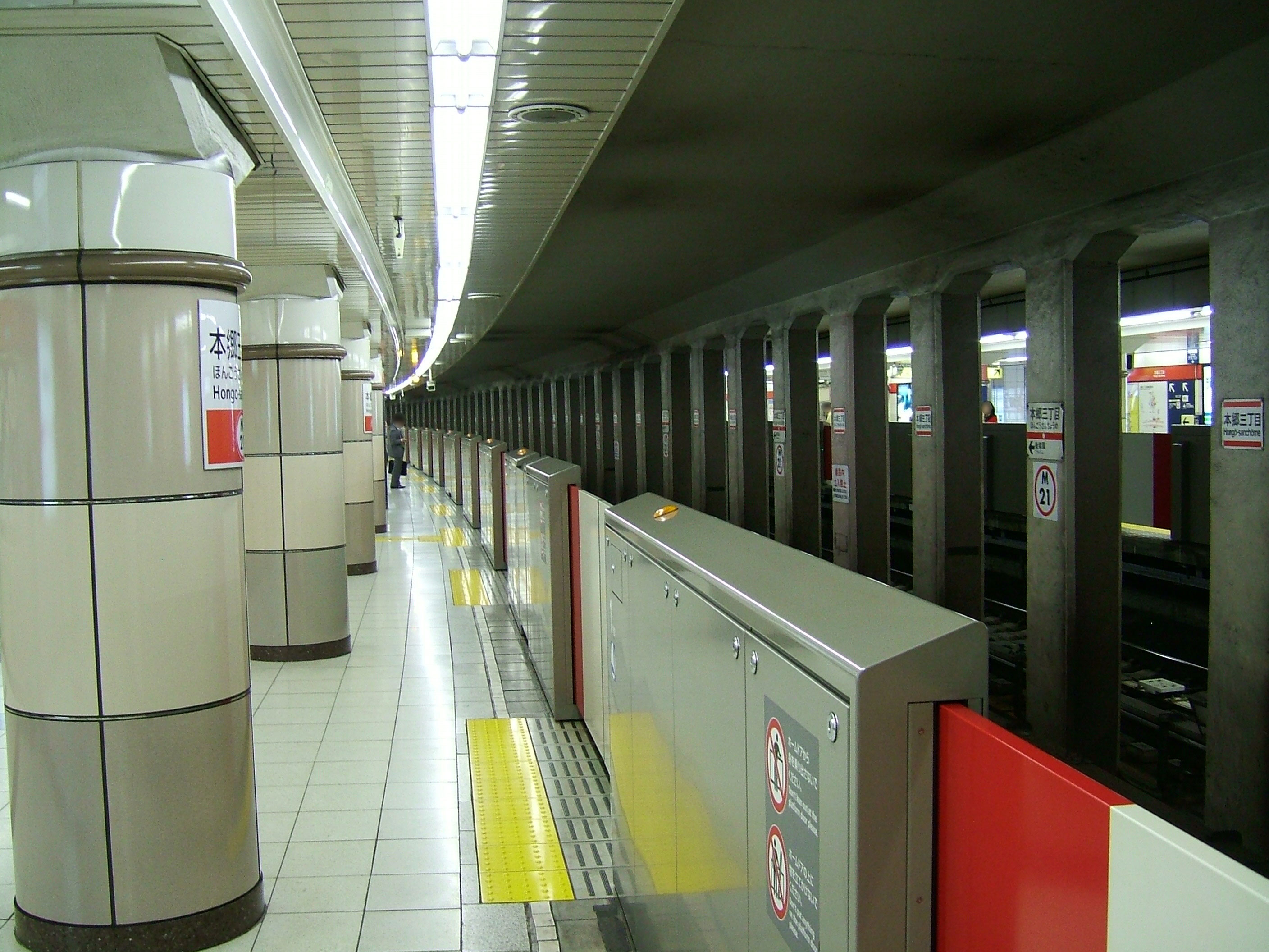 Hongō-sanchōme Station platform (Tokyo Metro Marunouchi Line)